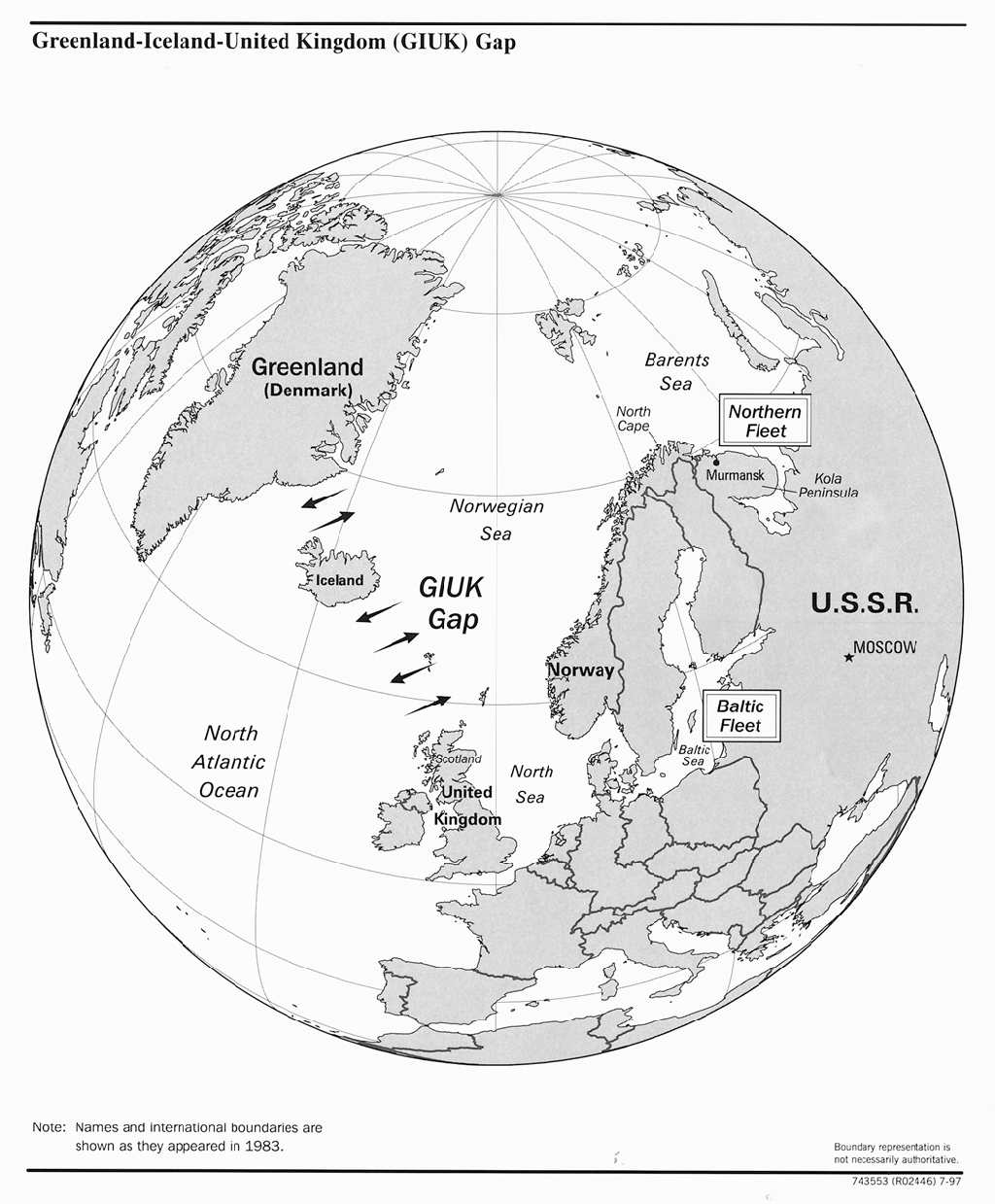 GIUK gap - between Greenland, Iceland, and the United Kingdom